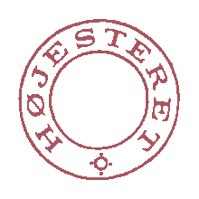 Logo used by Højesteret (Supreme Court of Denmark) in some of its published judgements starting July 2018.